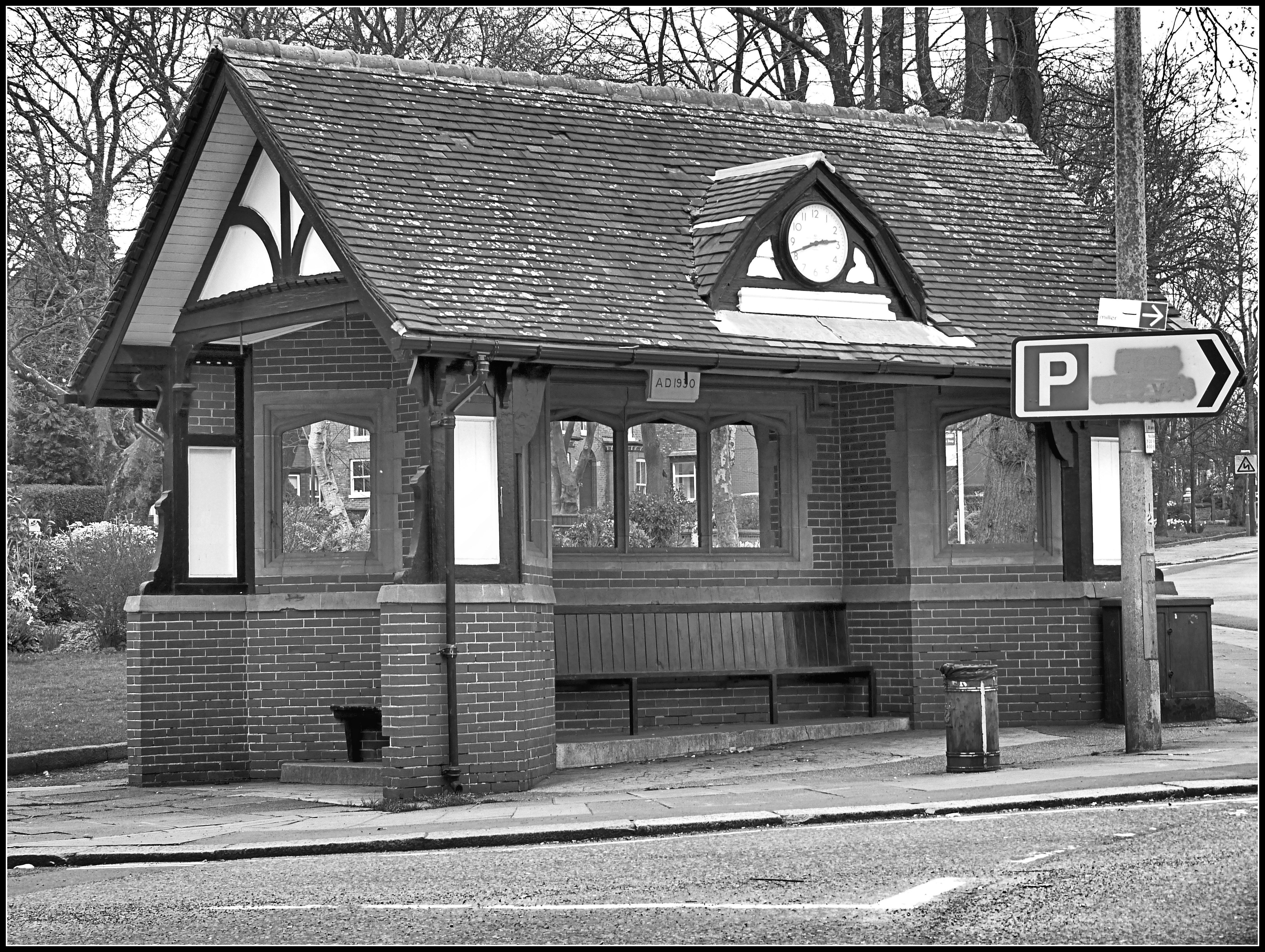 Built in the 1930's as a memorial to those lost in WW1